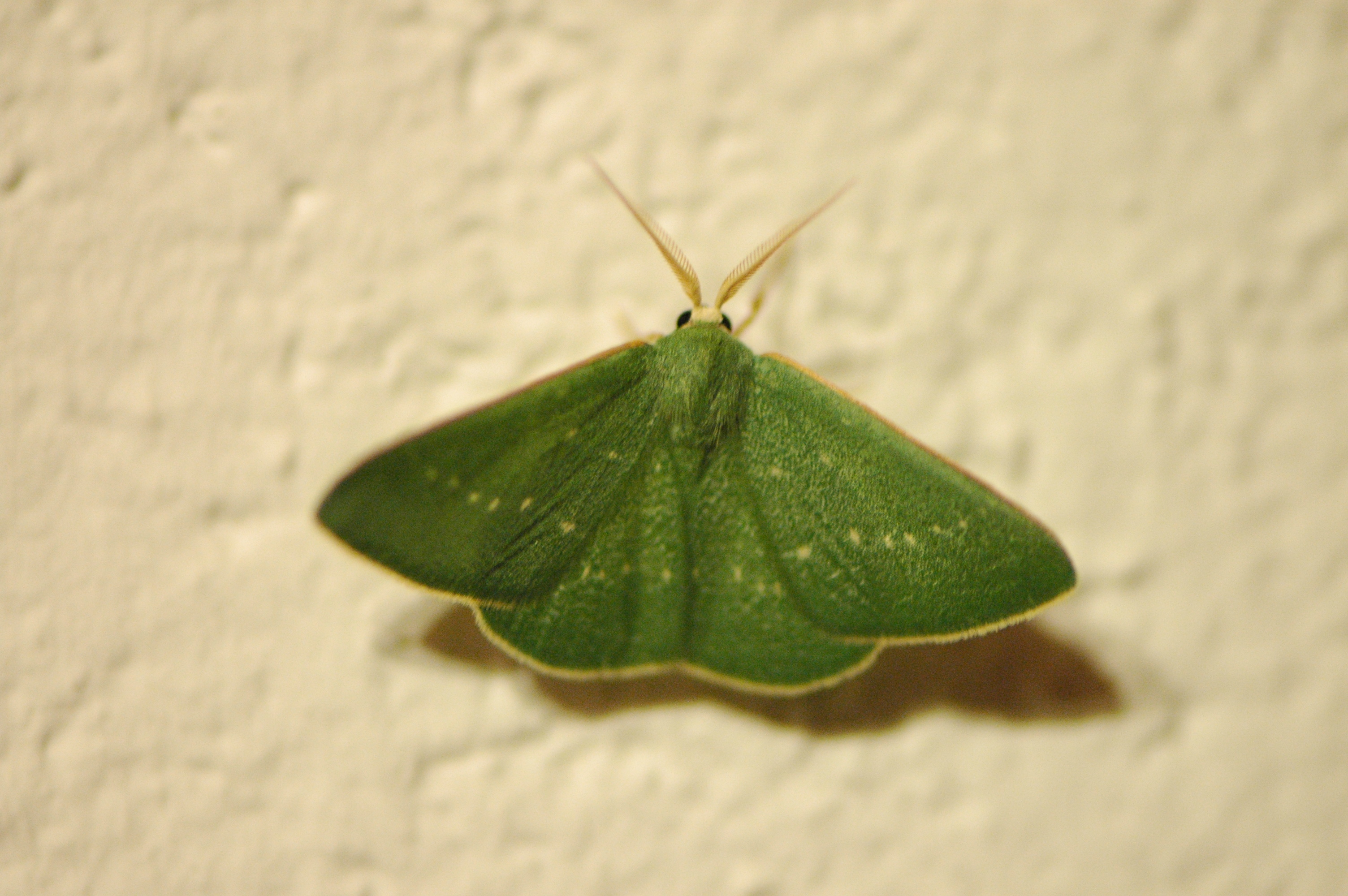 Image of Kuchleria insignata.